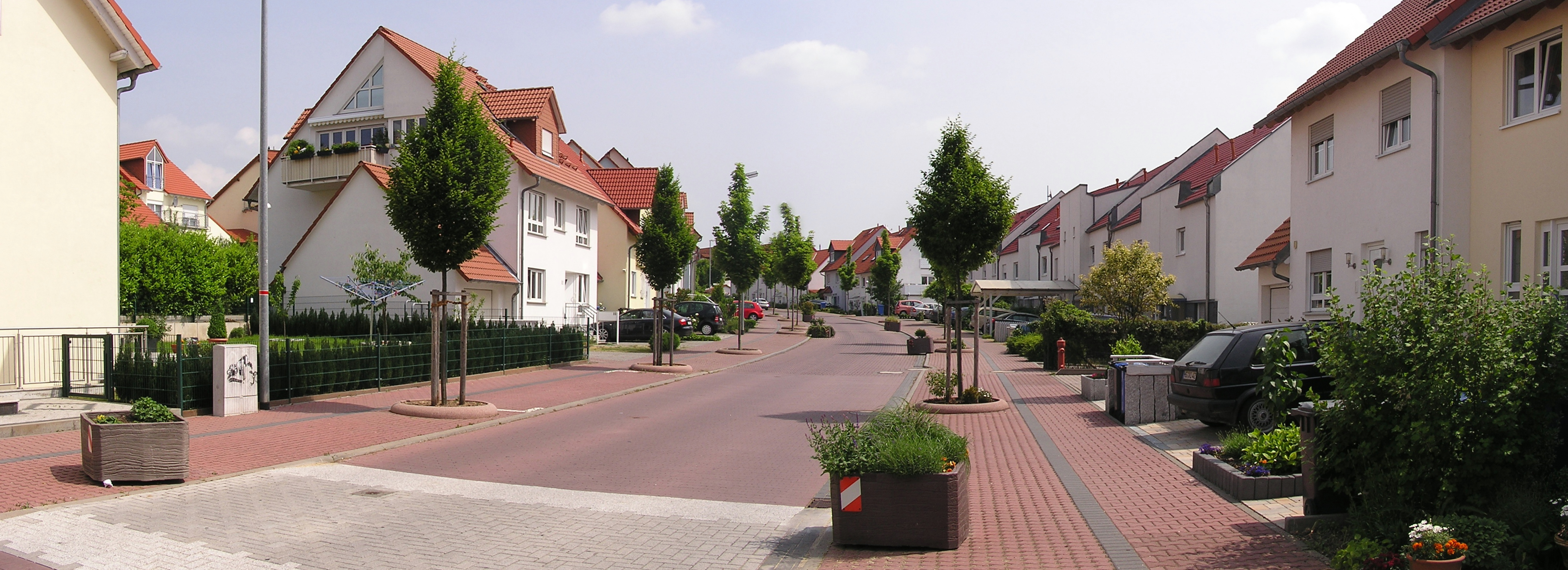 Typical housing in the area Römerhof, district Seulberg, Friedrichsdorf (southern, newer part)